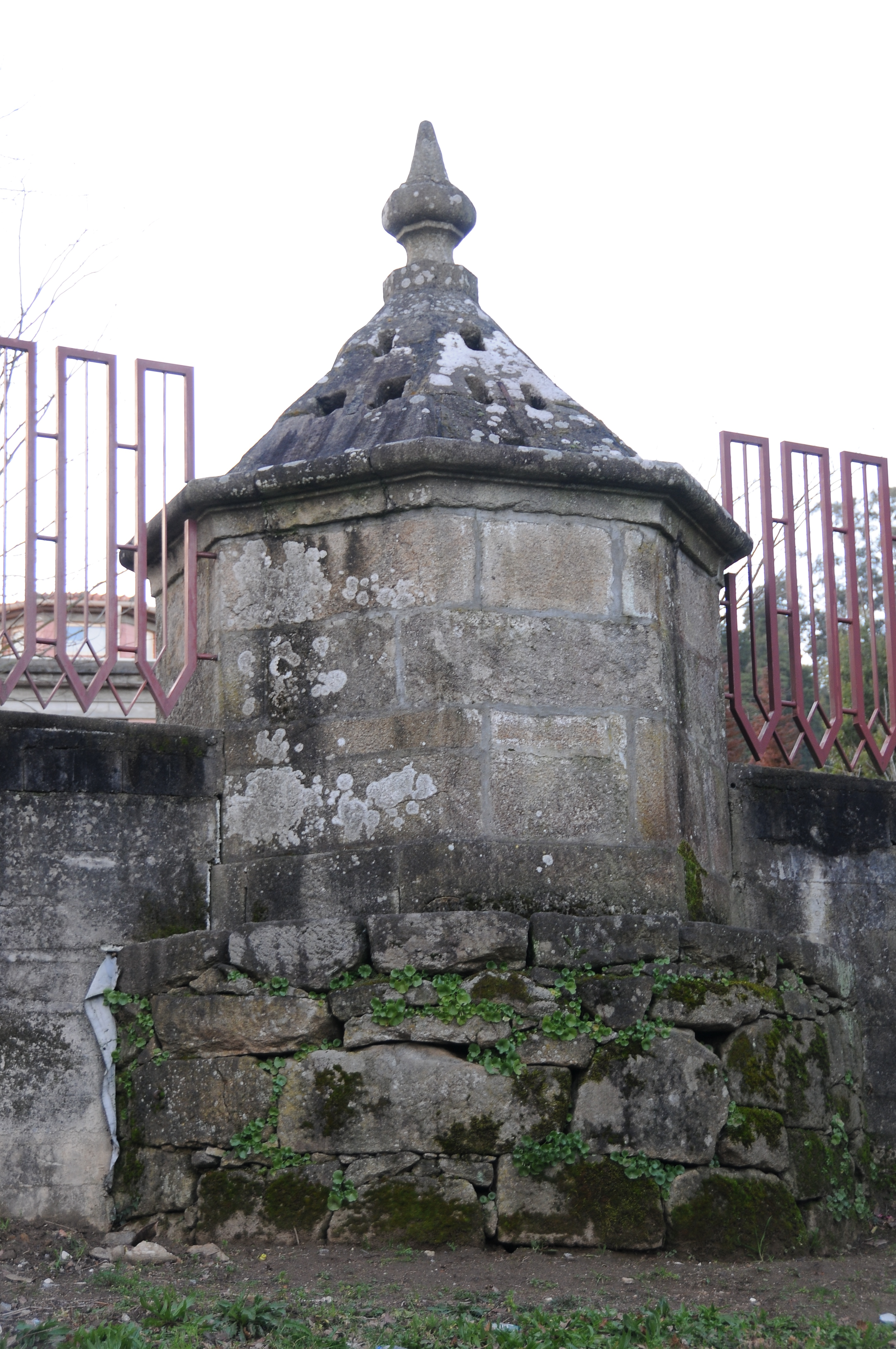 Respiro in Sete Fontes, Braga, Portugal.